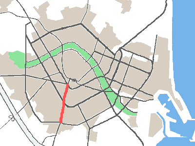 Map of Valencia showing the street or avenue named in the title.